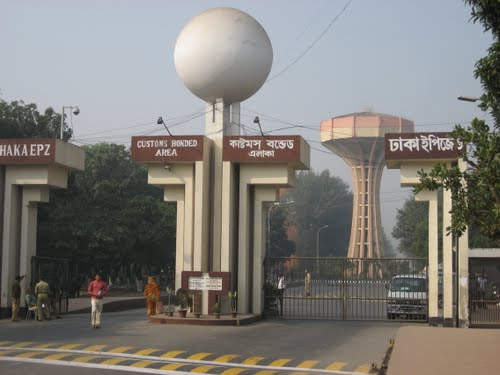 Main entrance for DEPZ (Dhaka Export Processing Zone)